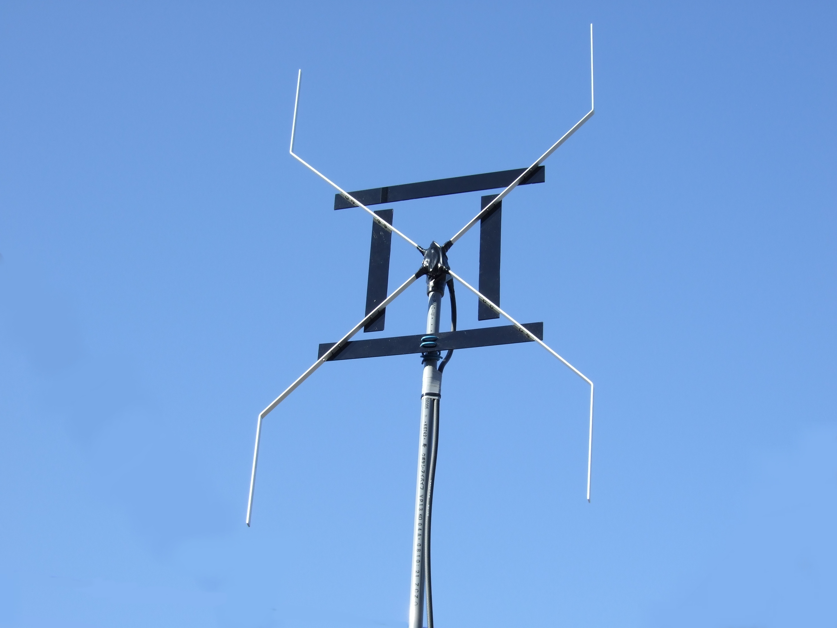 An altered AWX antenna which had been designed and built by an amateur radio operator and has been used by the amateur radio station. It is for VHF and UHF, mainly 144 MHz band and 430 MHz band.